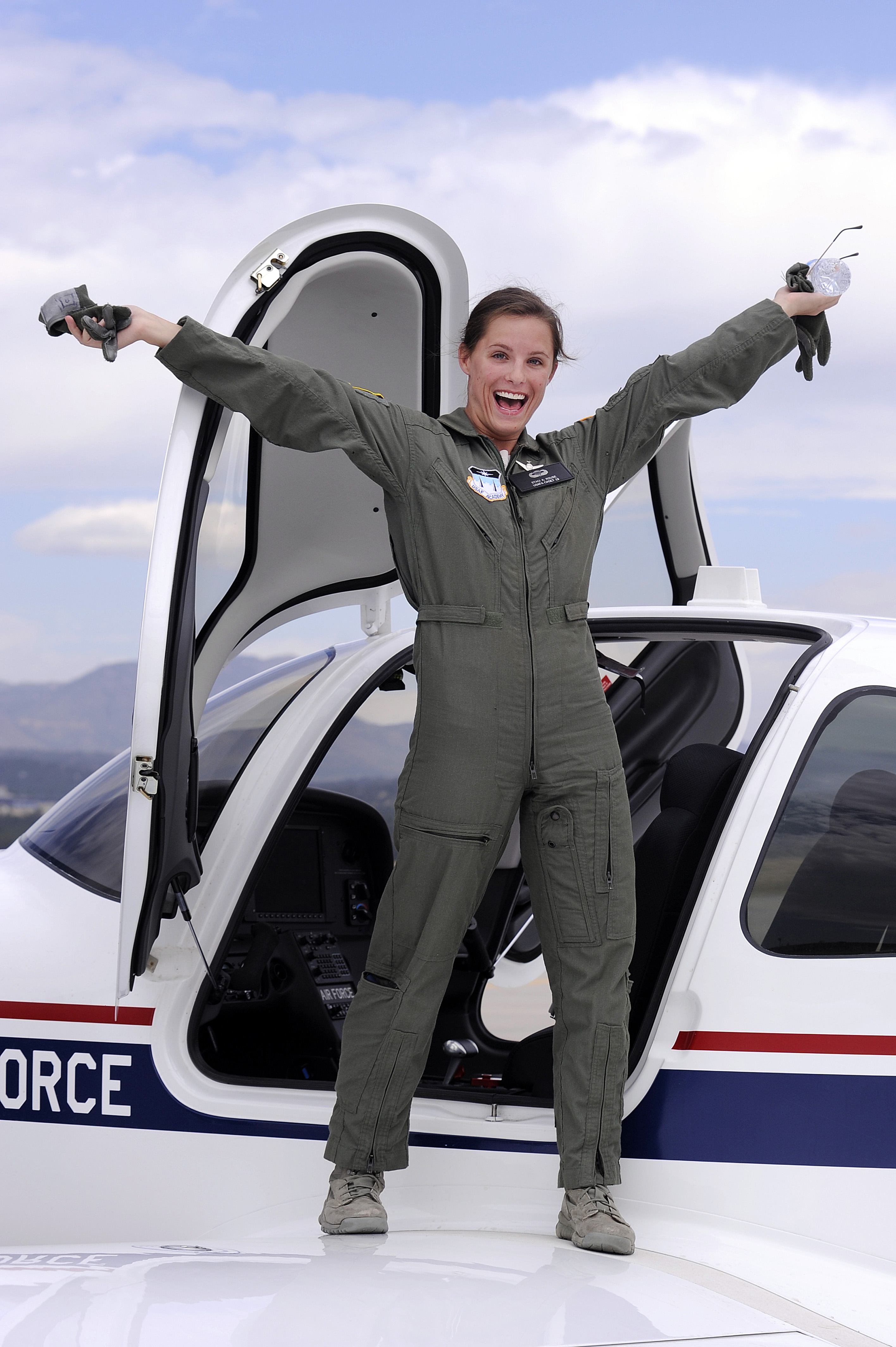 Cadet 1st Class Staci Rouse emerges enthusiastically from a T-53A trainer that she flew solo, marking a historic first for the Air Force Academy's powered flight program. Rouse, a native of Woodridge, N.J., is assigned to Cadet Squadron 40. (U.S. Air Force photo/Mike Kaplan)